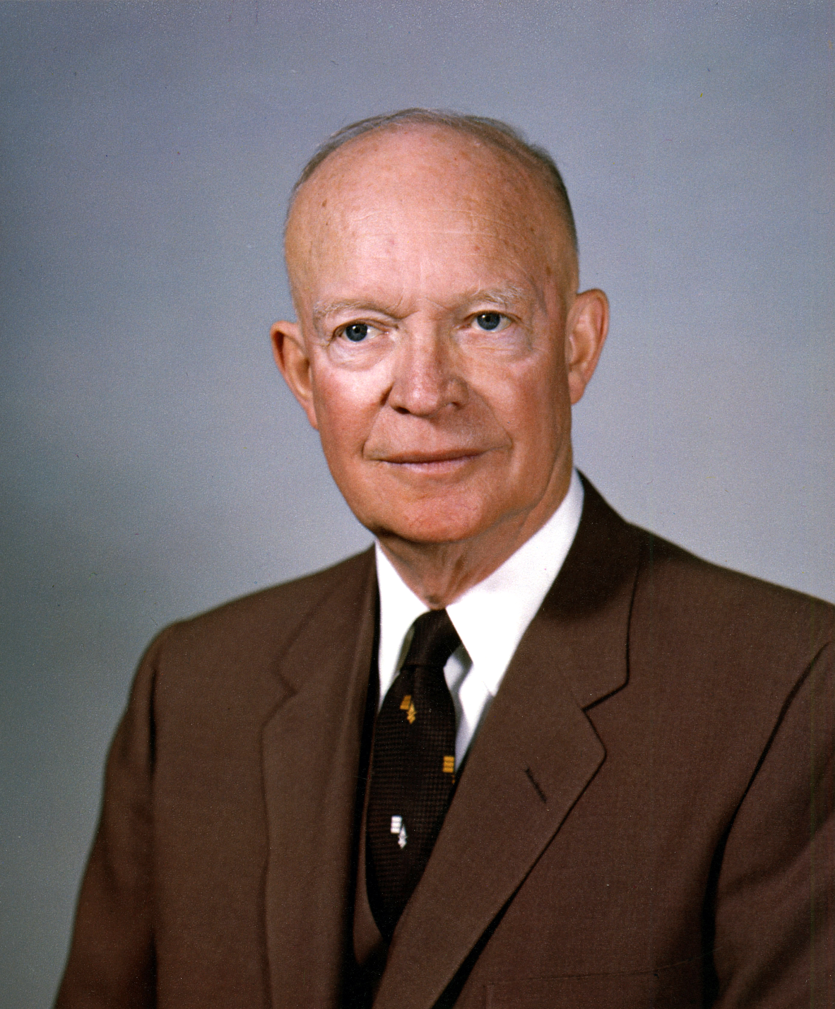 Dwight D. Eisenhower, President of the United States